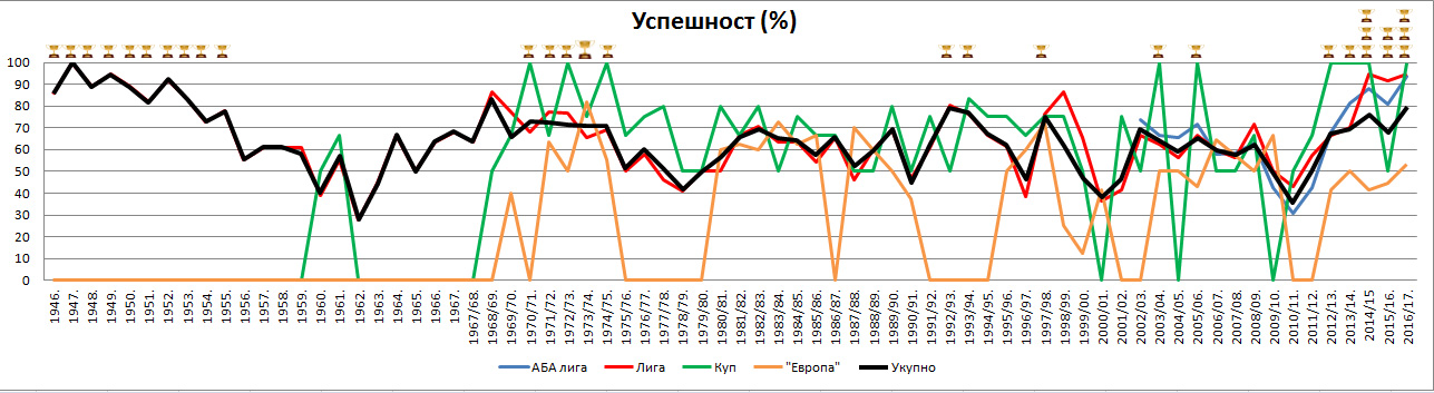 Percentige of win during the historz of the club, with trophies